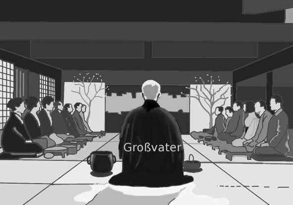 Illustrative sketch of a scene in the film "Gishiki" (1971).